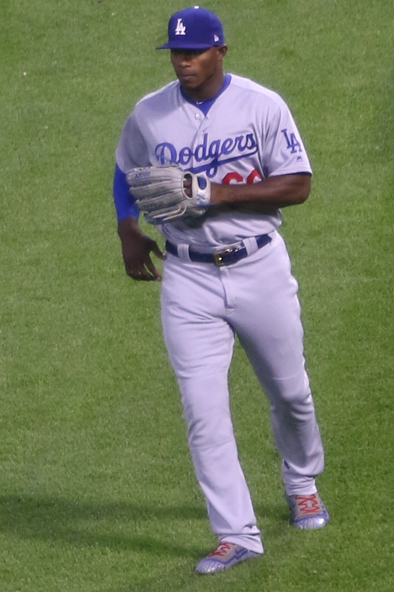 Yasiel Puig for the 2017 Los Angeles Dodgers